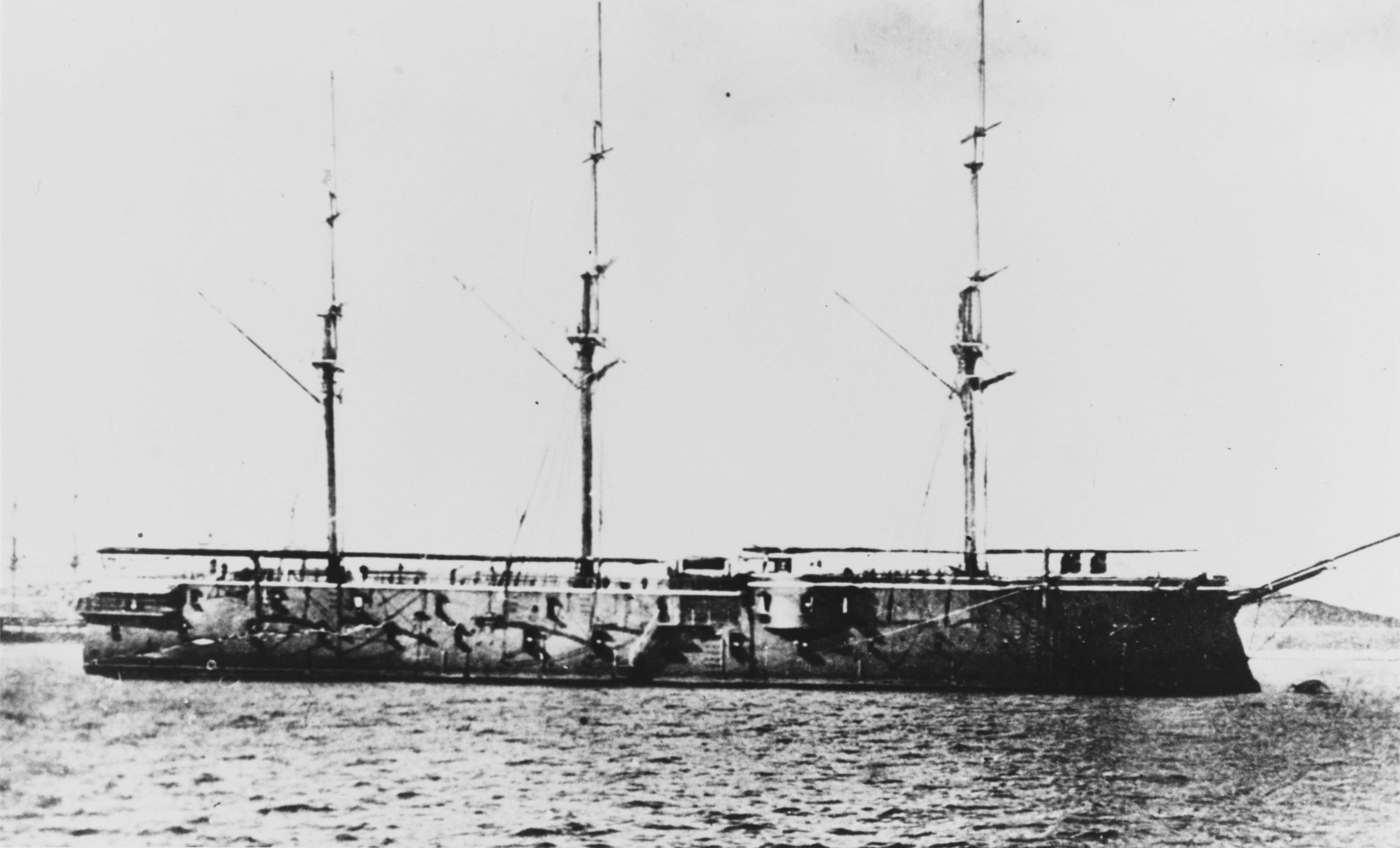 The SMS Lissa. Photo taken before the 1875-1877 modernization. Funnel is lowered. Cropped by uploader.